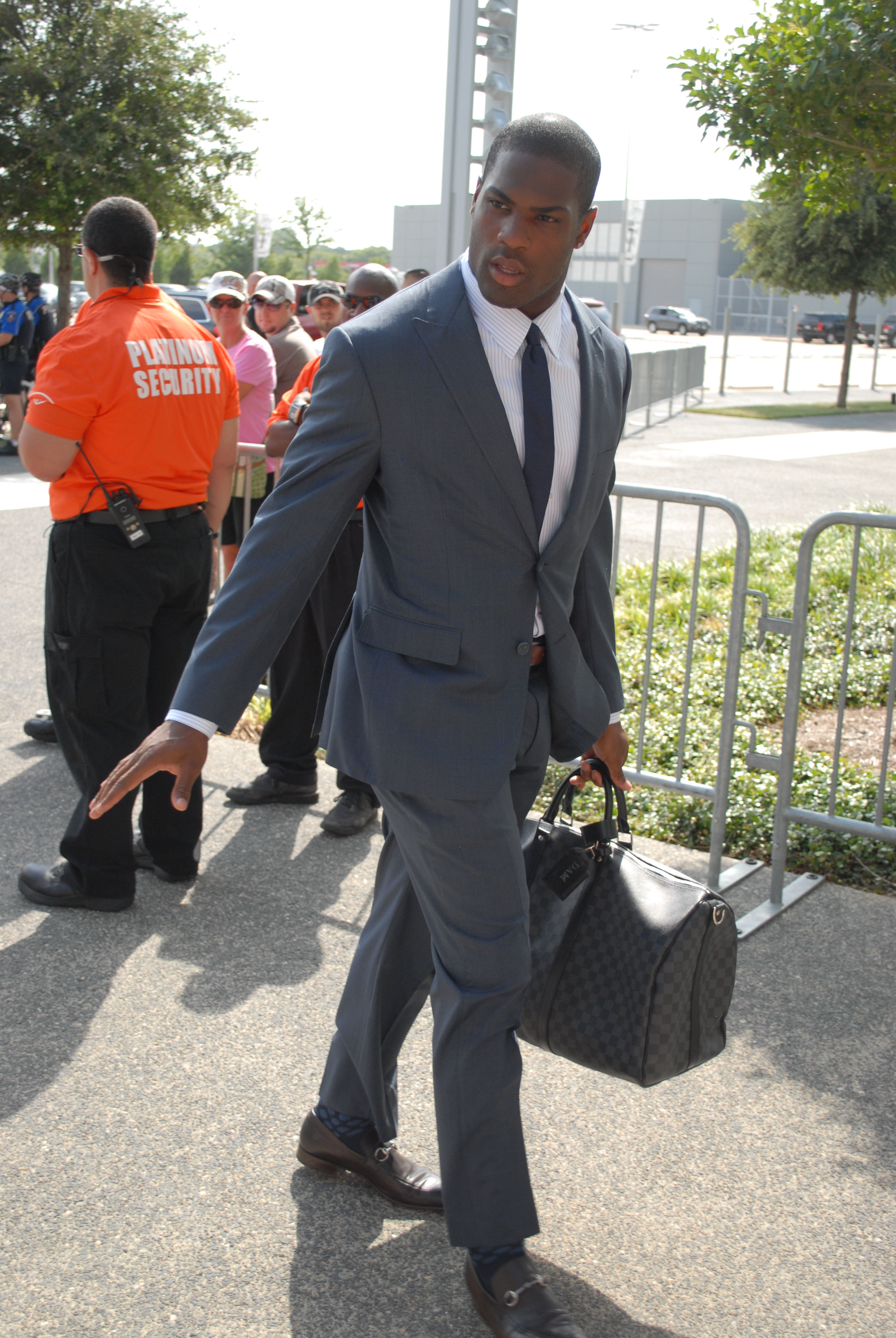 American football player Demarco Murray